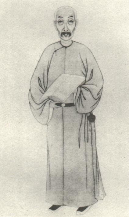 WANG Yinzhi, politician and scholar of the Qing Dynasty.